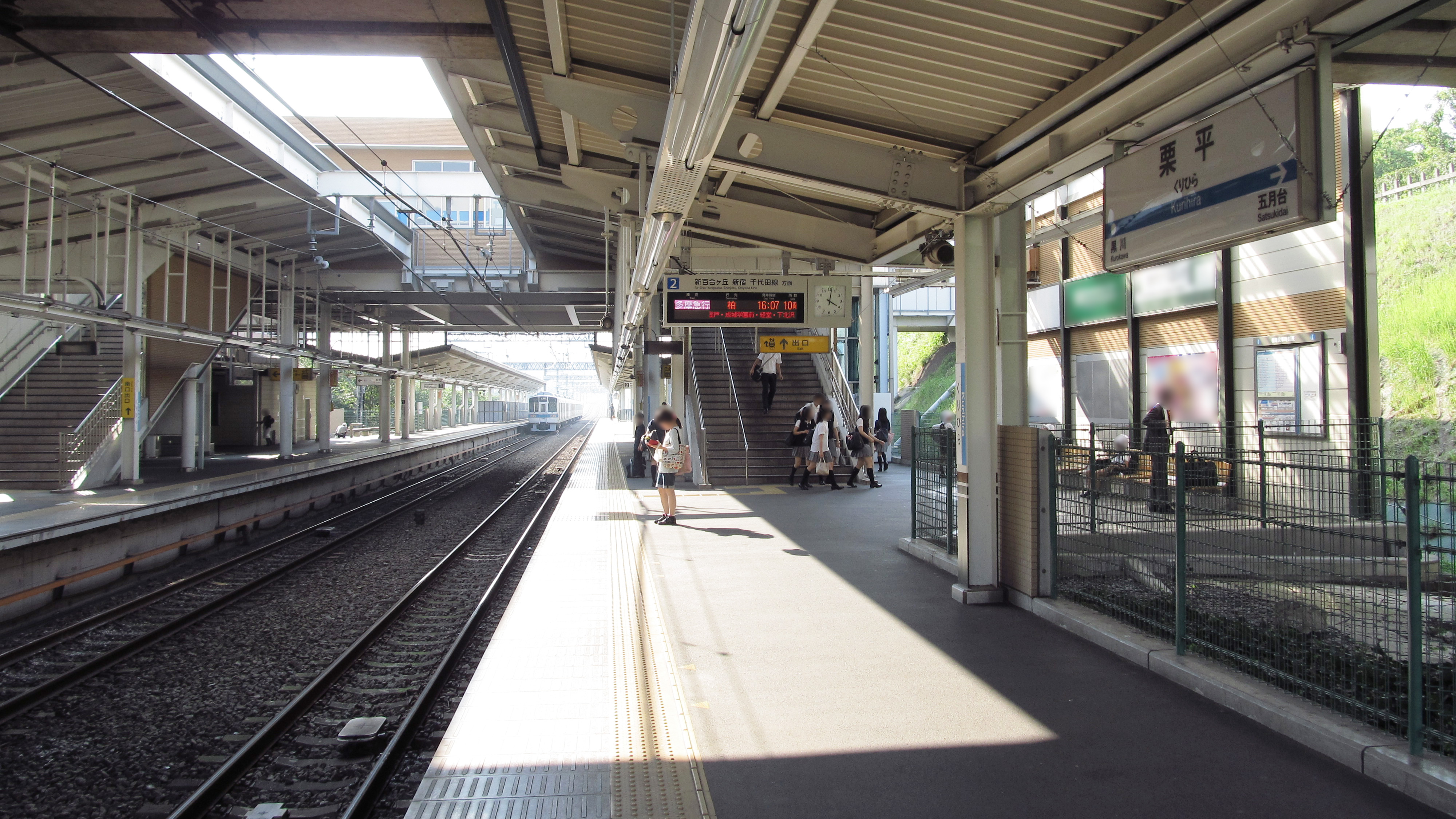 The platforms at Kurihira Station on the Odakyu Tama Line in Asao ward, Kawasaki, Kanagawa Prefecture, Japan